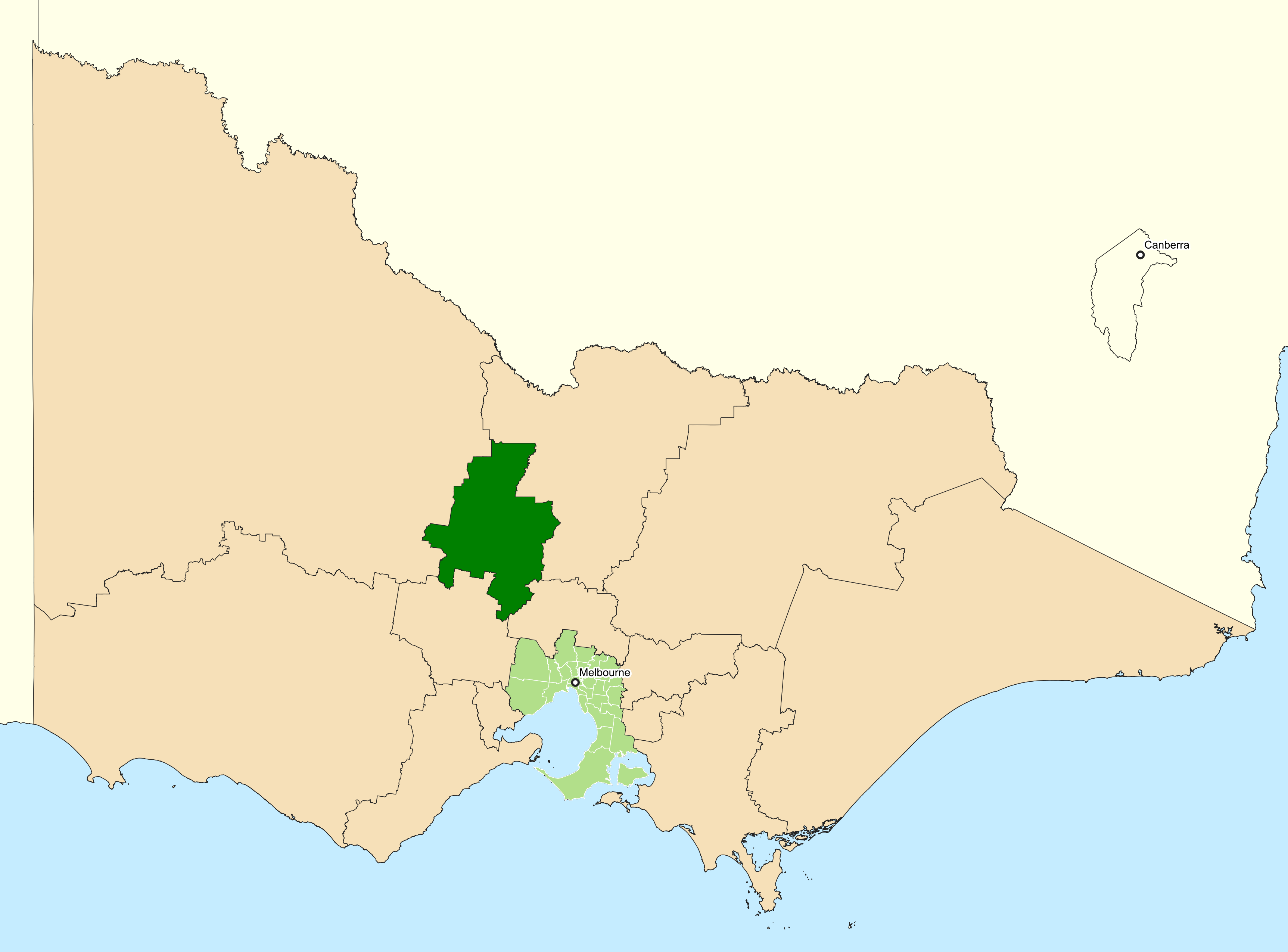 Location of the Australian federal electoral division of Bendigo (dark green) in Victoria as of the 2019 Australian federal election. Incorporates or developed using Administrative Boundaries ©PSMA Australia Limited licensed by the Commonwealth of Australia under Creative Commons Attribution 4.0 International licence (CC BY 4.0).